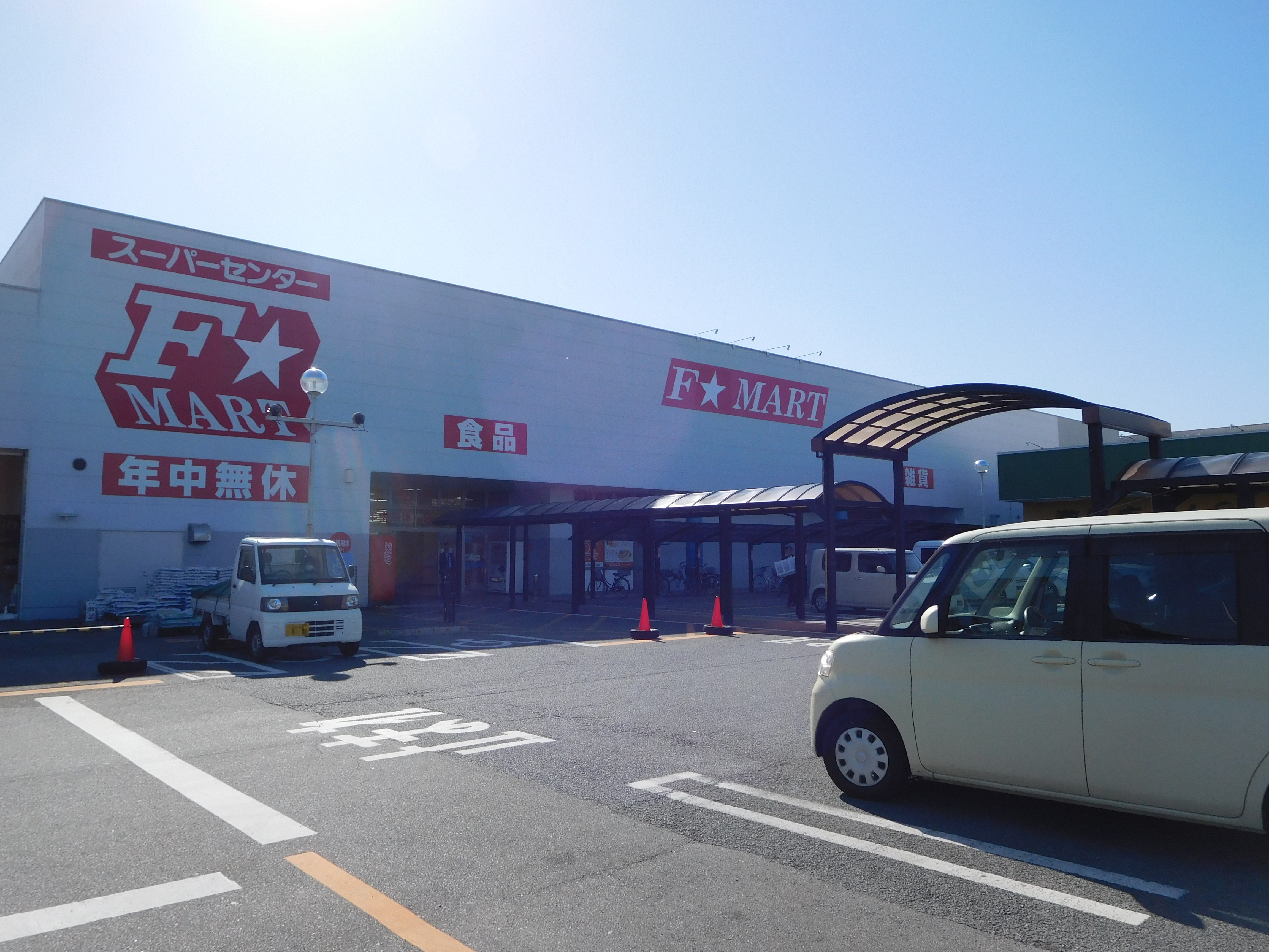 This is a supermarket "F☆MART Tsu Minami Shop" in Tsu, Mie, Japan.